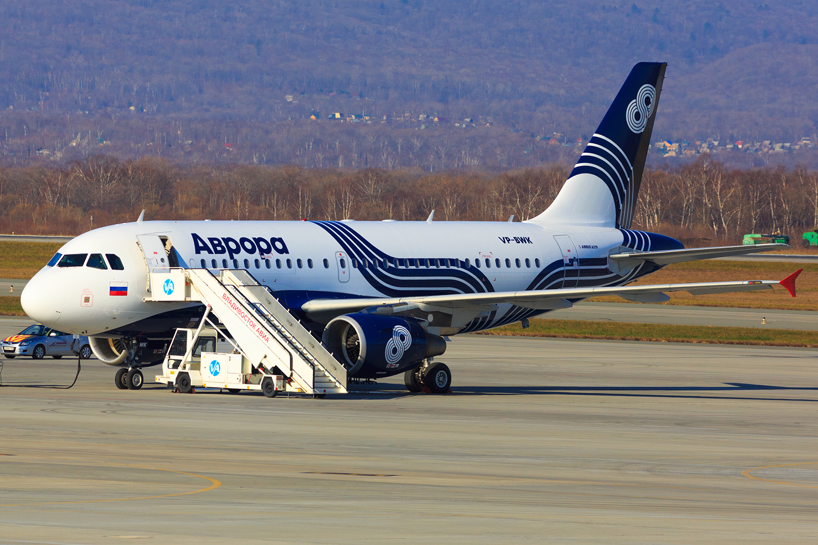 Aurora Airbus A319-100 at Vladivostok Airport